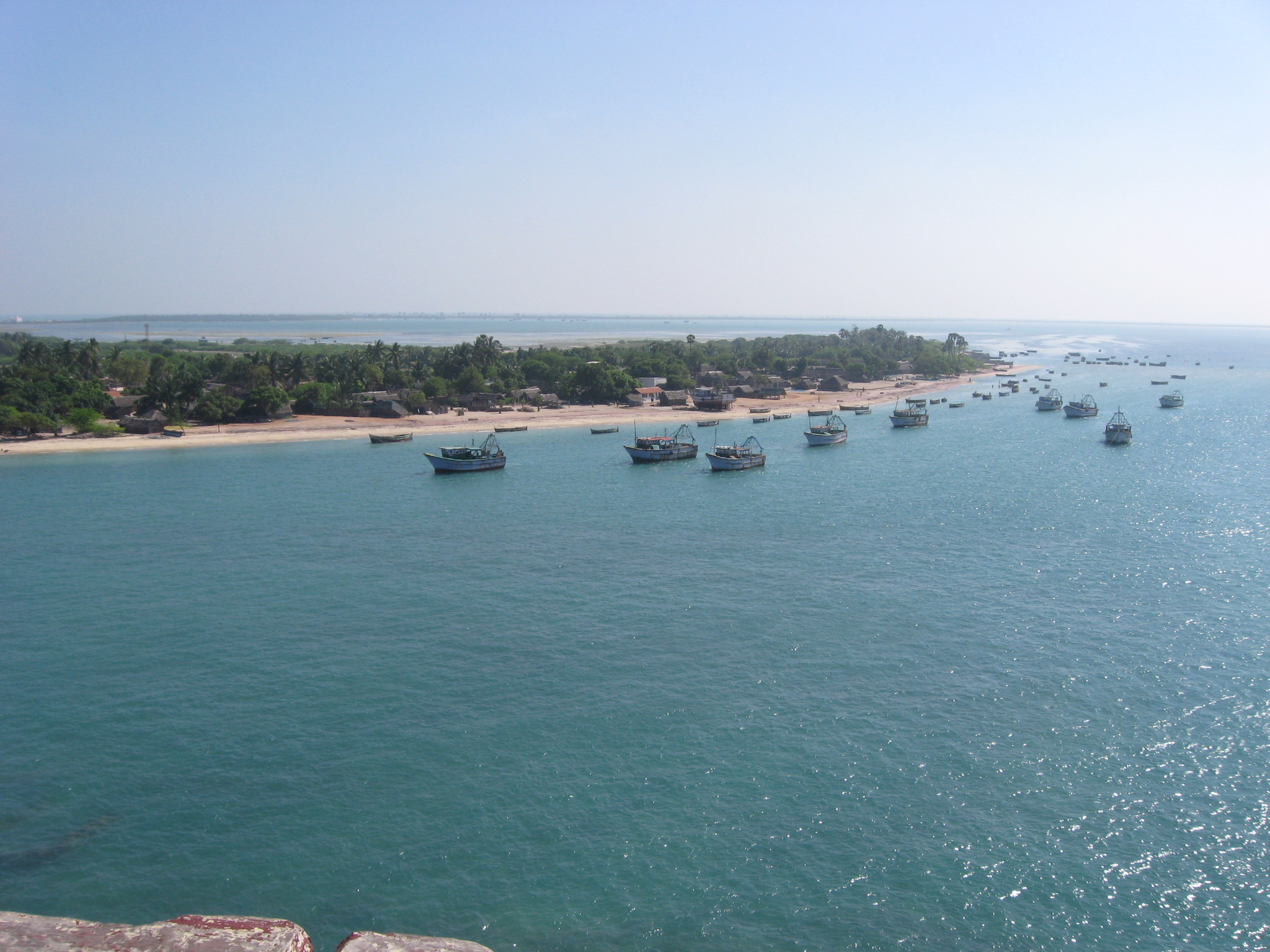 Rameshwaram in a bright and beautiful day and with a view of the land and coast side; Shot taken from the bridge.